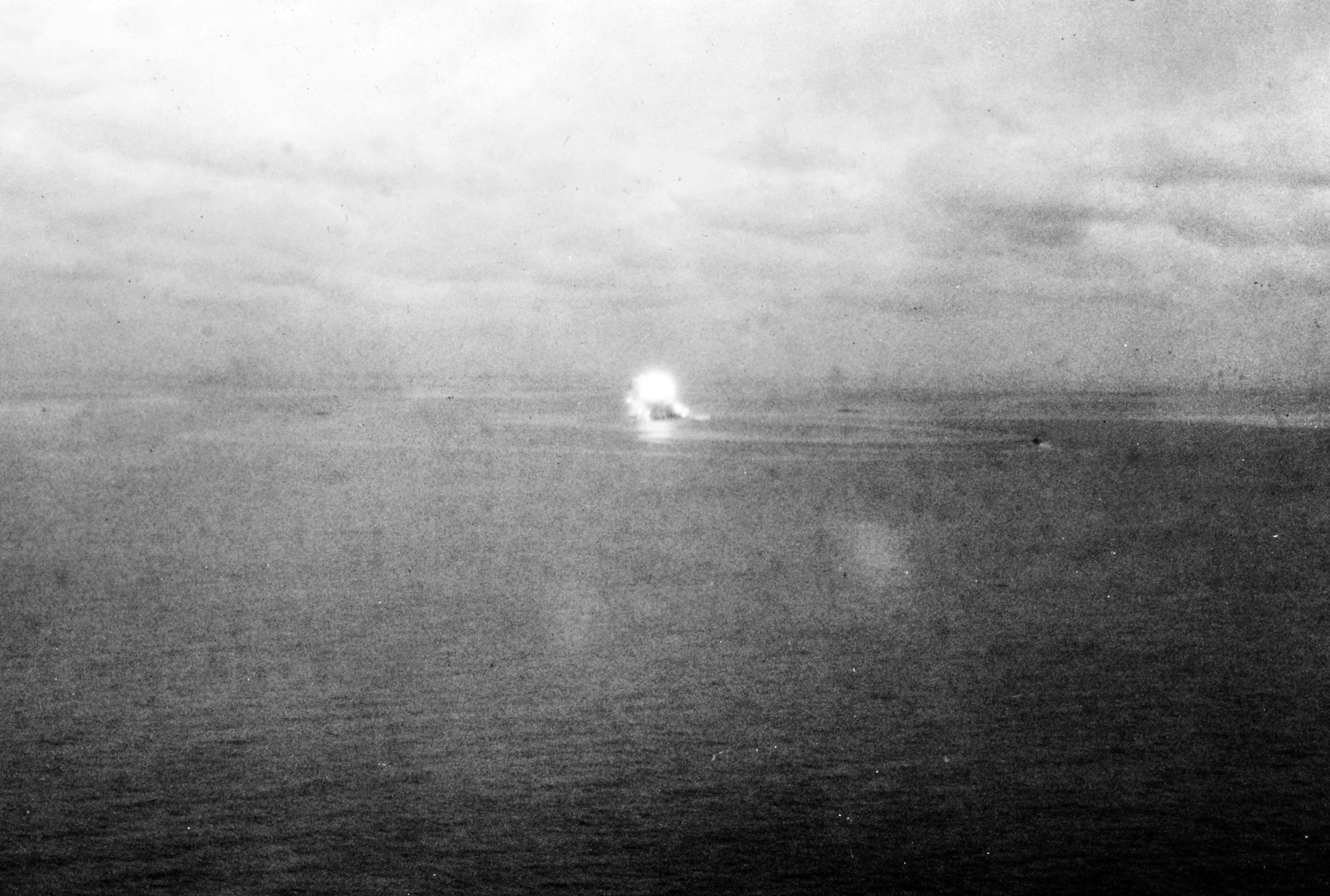 Operation "Ten-Go", 7 April 1945: The Japanese battleship Yamato capsizes and explodes sank after receiving many bomb and torpedo hits from U.S. Navy carrier planes north of Okinawa. Photographed from a plane from the aircraft carrier USS Yorktown (CV-10) (Collection of Fleet Admiral Chester W. Nimitz, USN).